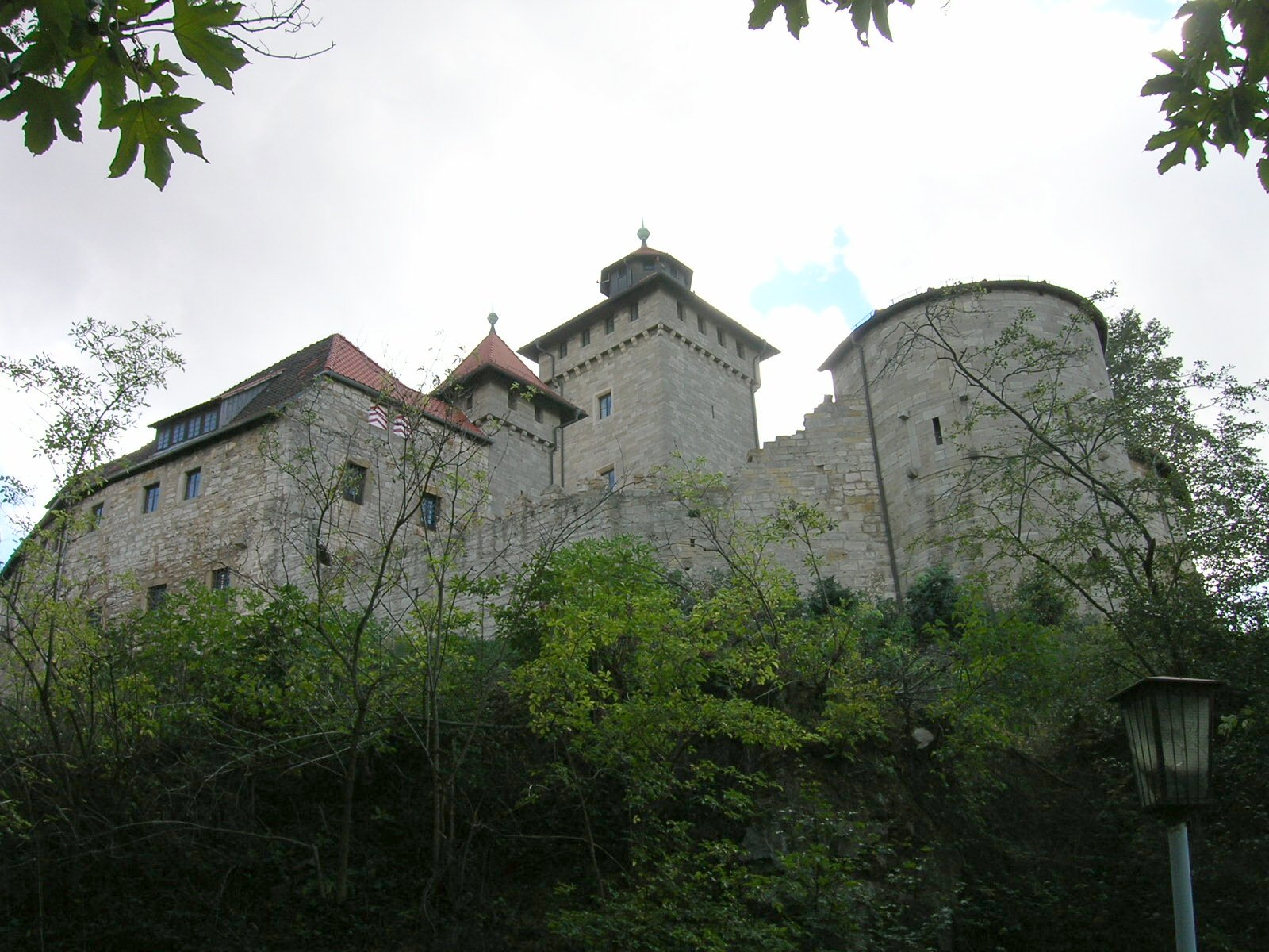 Wachsenburg castle in Thuringia, nothern castle walls